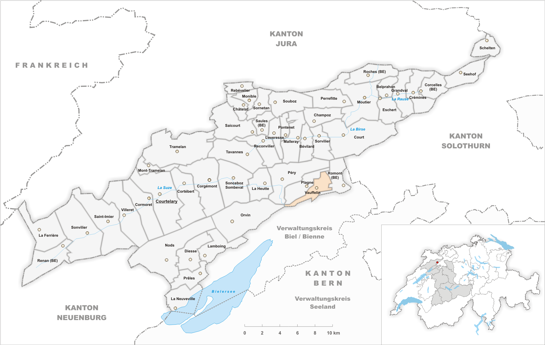 Municipality Vauffelin